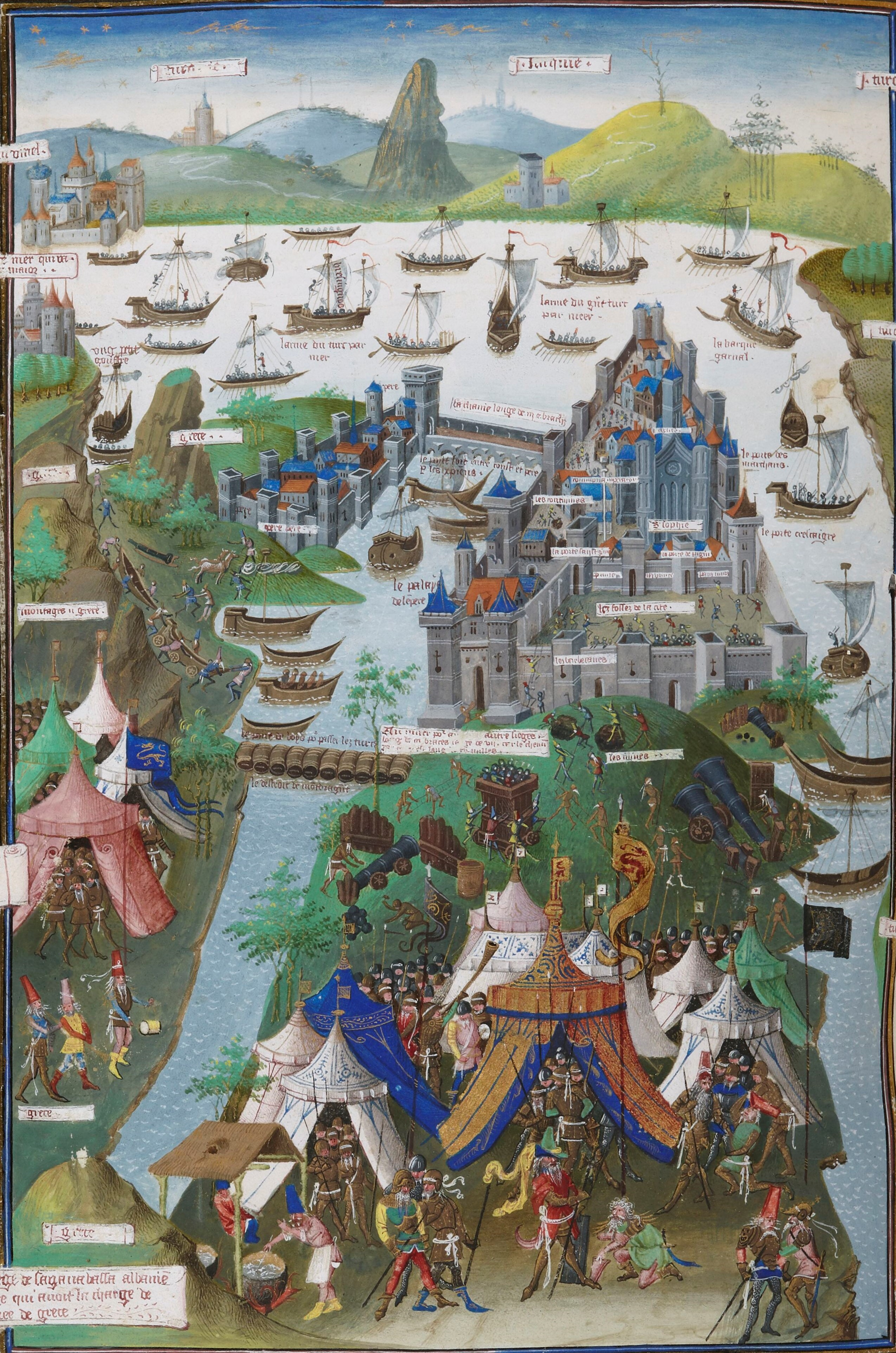 Siege of Constantinople from Bibliothèque nationale mansucript Français 9087 (folio 207 v). The Turkish army of Mehmet II attacks Constantinople in 1453. Some soldiers are pointing canons to the city and others are pulling boats to the Golden Horn.